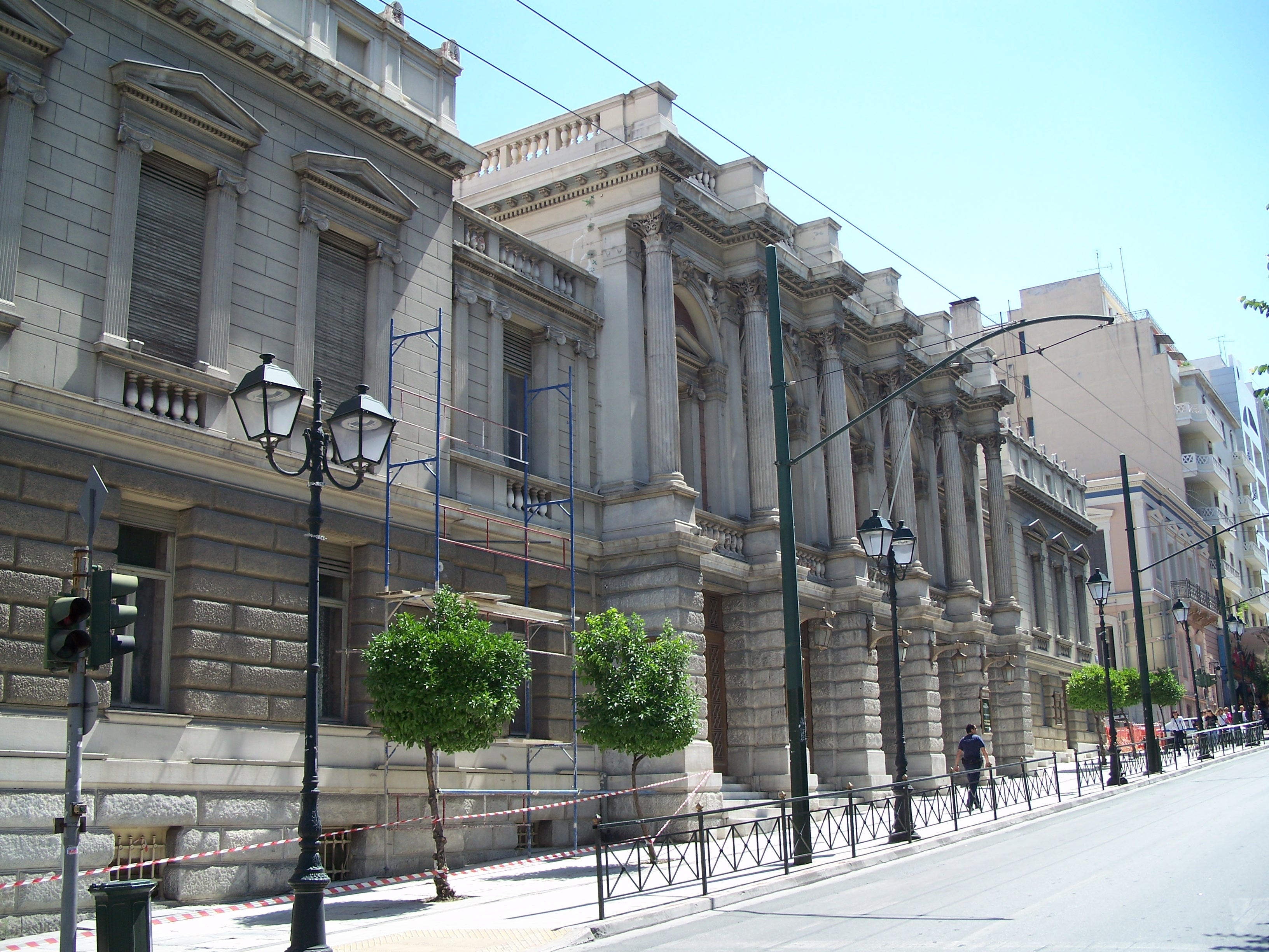 The National Theatre (Εθνικό θέατρο) in Athens.